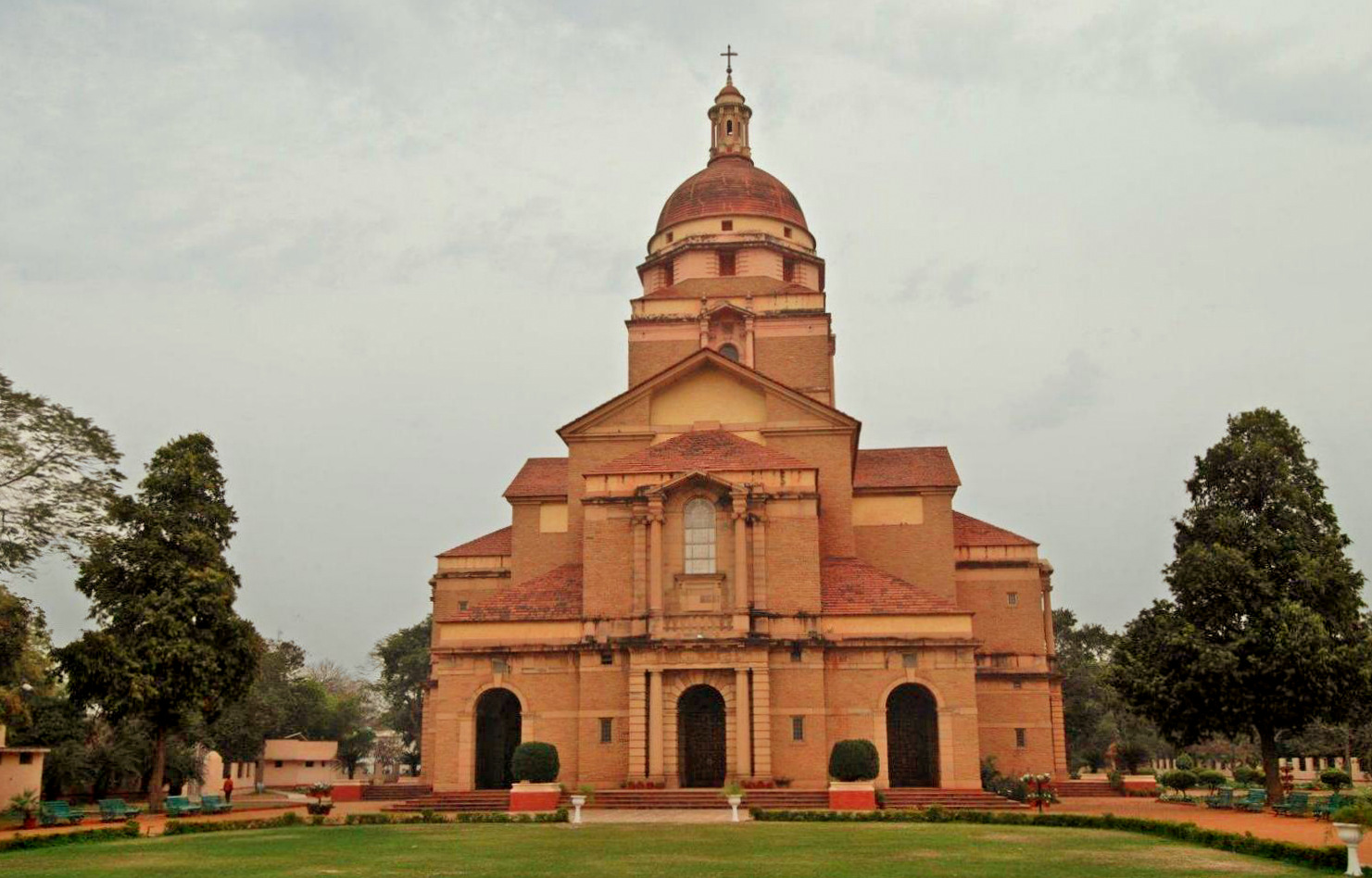 Very beautiful Church in Delhi